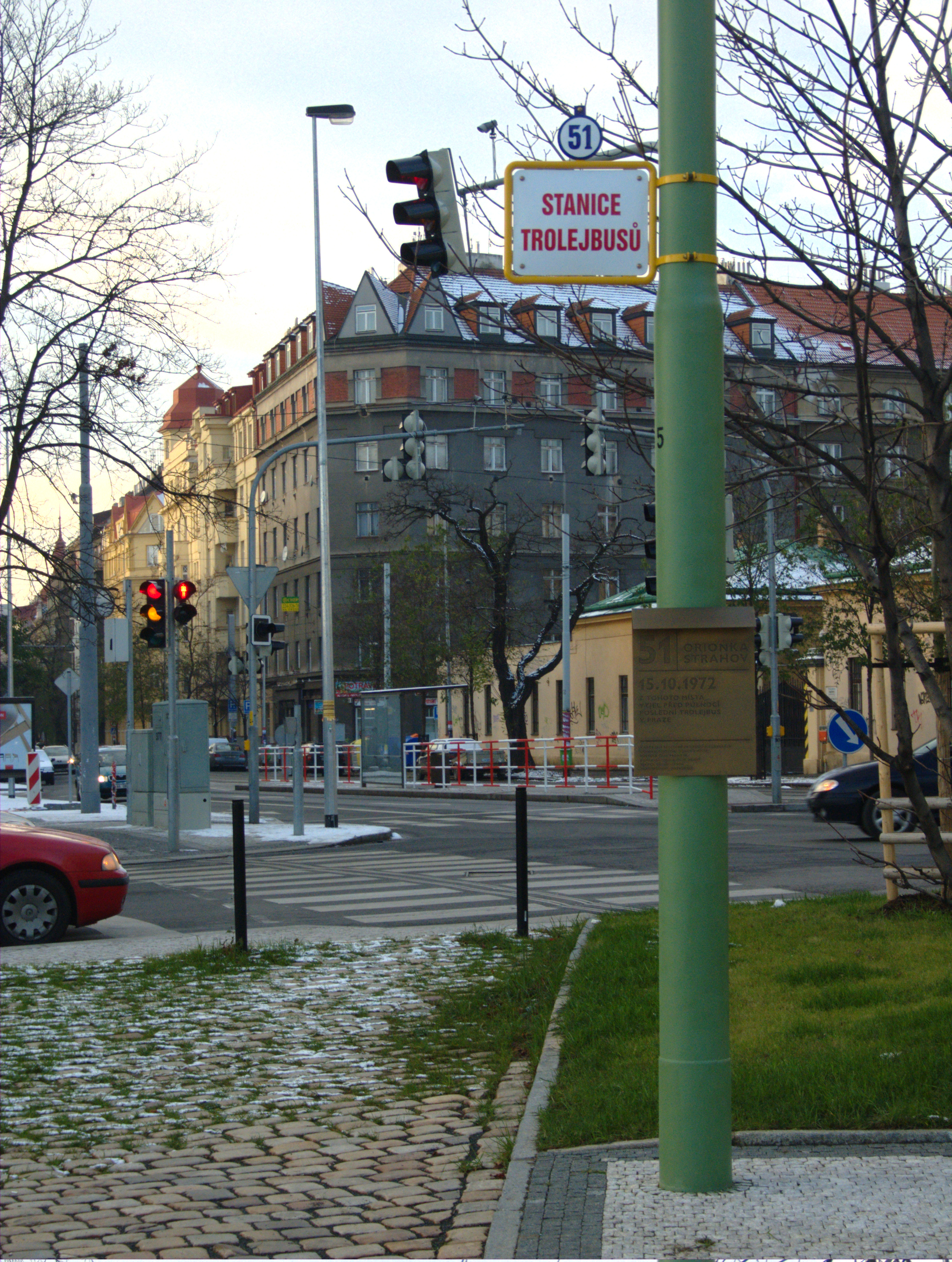 Trolleybus memorial at Orionka, near former trolleybus depot, (Prague-Vinohrady), CZ